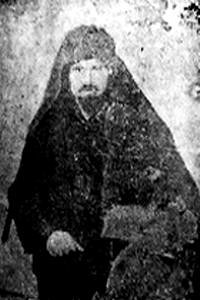 The only known photograph of Bulgarian cleric and revolutionary Matey Preobrajenski (1828-1875)